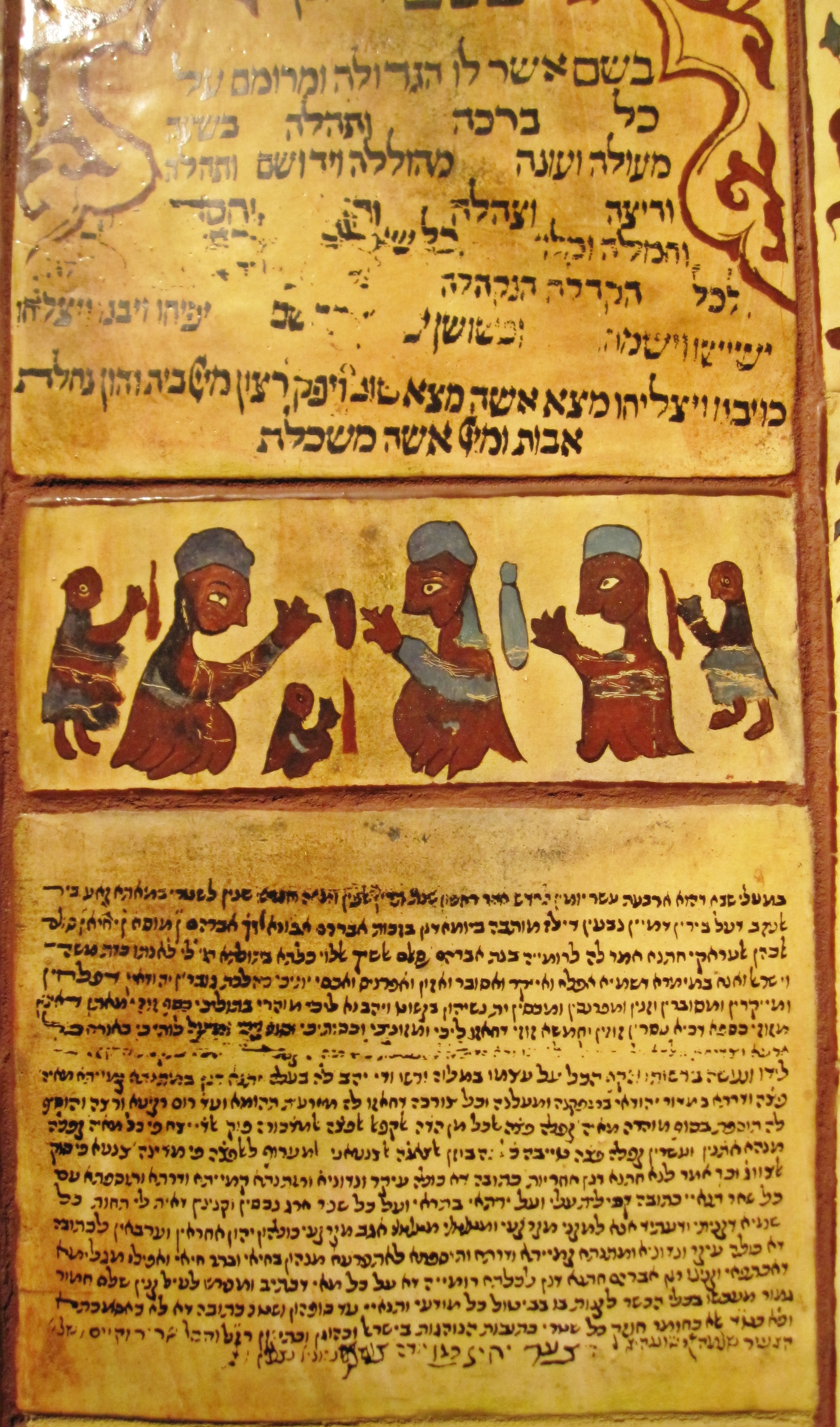 This is a photo of an exhibit at the Diaspora Museum, Tel Aviv - Beit Hatefutsot